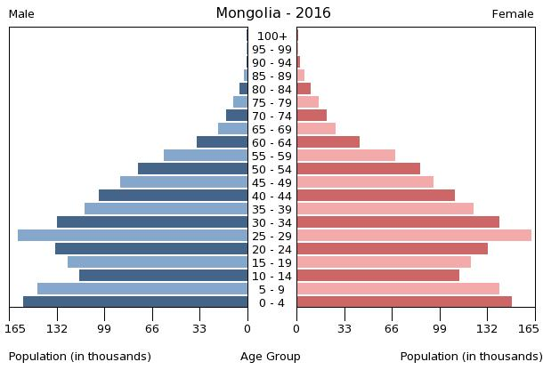 A population pyramid showing the differences of ages within Mongolia